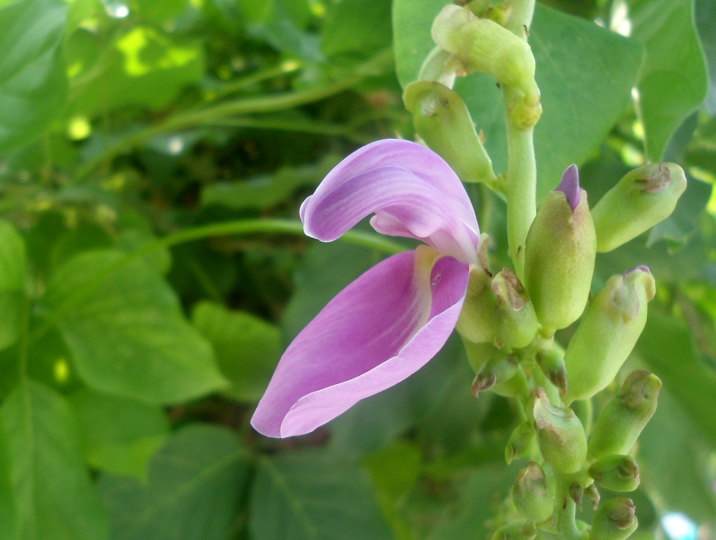 Canavalia lineata (country bean flower) at a Temple in Bhadrachalam, Andhra Pradesh